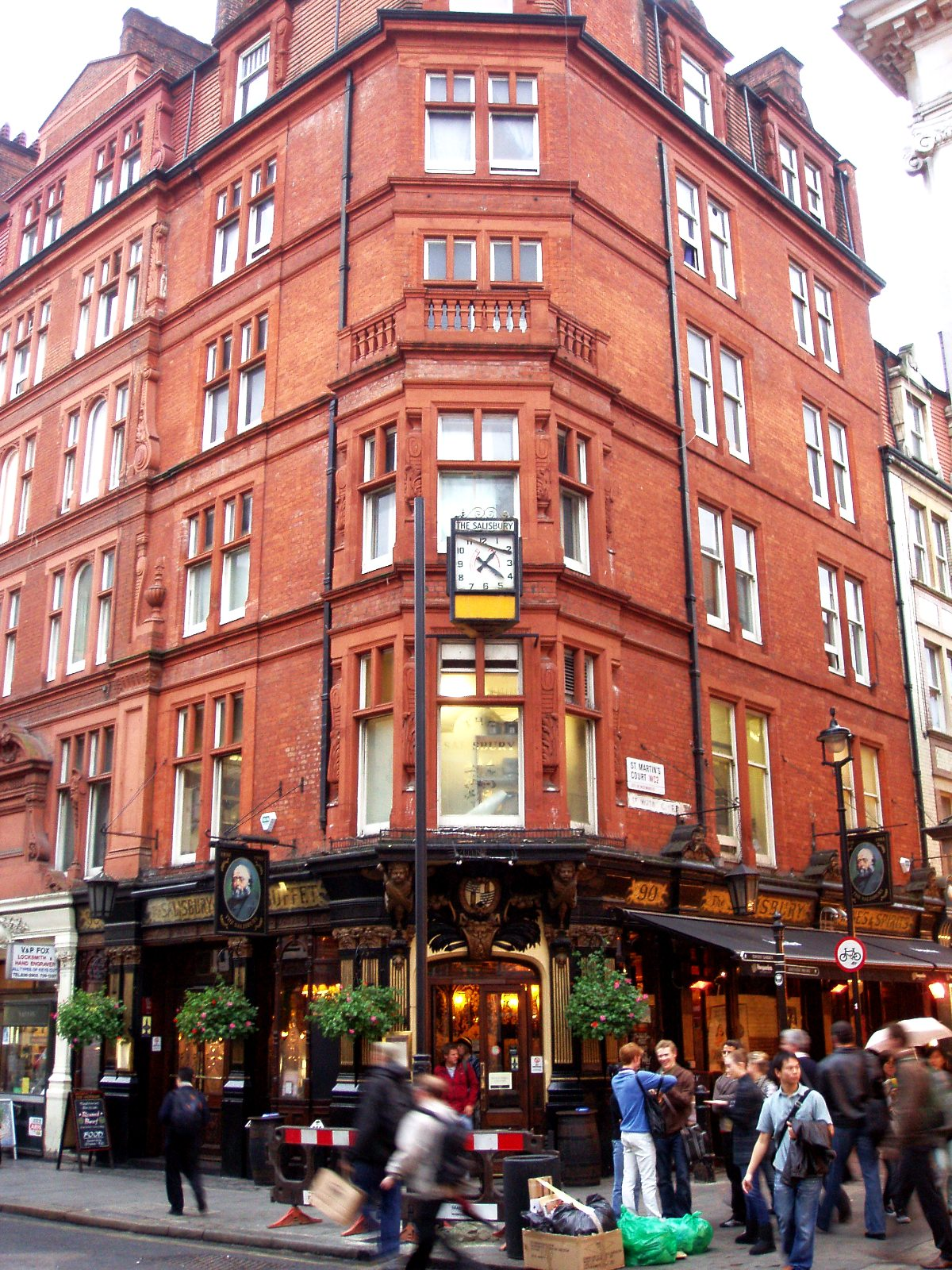 Decent enough place on London's busy St Martin's Lane, heart of Theatreland. Proudly boasts that it doesn't show sport. Address: 90 St Martins Lane. Former Name(s): The Salisbury Stores; Ben Caunt's Head (on the same site); The Coach and Horses (on the same site). Owner: Spirit Pub Company [Taylor Walker] (website); Punch Taverns [Spirit Group] (former). Links: Randomness Guide to London Fancyapint Beer in the Evening Qype CAMRA National Inventory Dead Pubs (history)